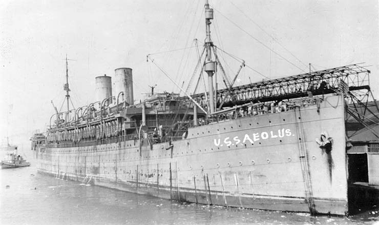 USS Aeolus (ID-3005) in port, while bringing troops home from Europe in 1919. The ship's armament had been removed by the time this photograph was taken.